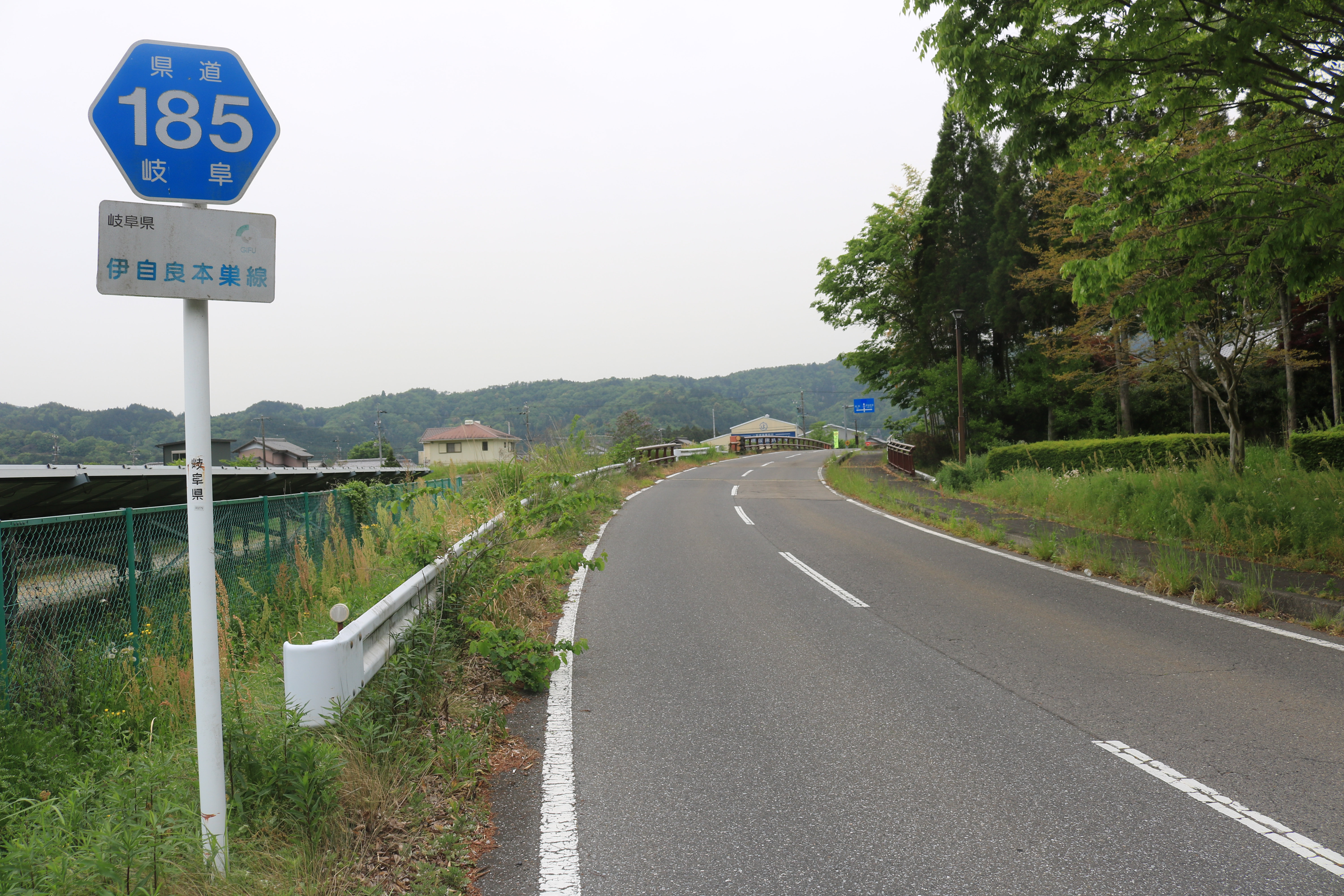 Gifu Prefectural Road Route 185 in Jogan, Yamagata, Gifu prefecture, Japan.